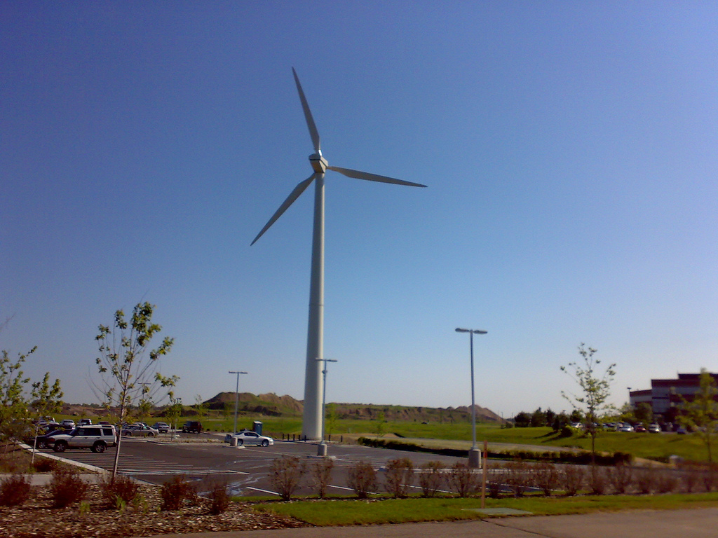 160-foot tall, 200 kilowatt NEG Micon M700 wind turbine at the Great River Energy headquarters near Maple Grove, Minnesota. The wind turbine is visible from Interstate 94.